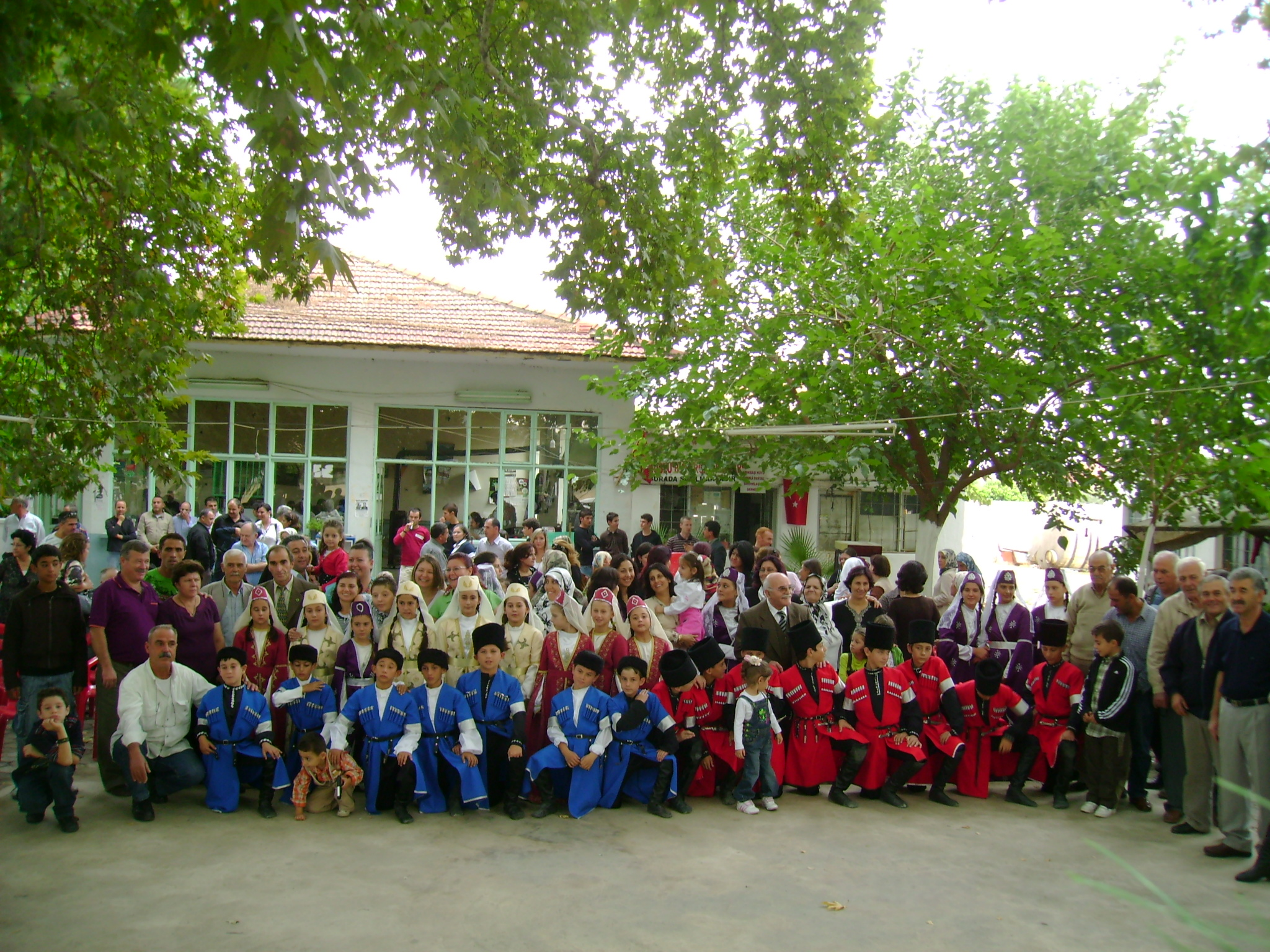 Bayram (Feast) This is linked to Arıkbaşı, Bayındır, a village near Izmir, Turkey. Richard Avery (talk) 13:40, 15 August 2014 (UTC)